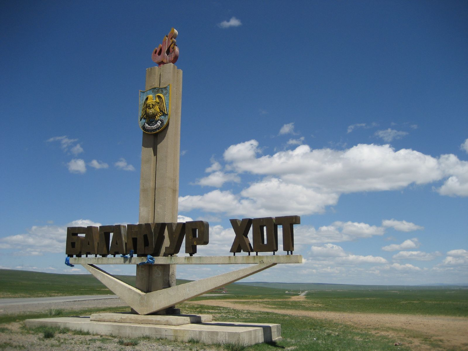 A sign marking the entrance to the city of Baganuur in Mongolia. Baganuur is formally a Düüreg (district) of the capital Ulaanbaatar. Geographically it is a seperate city located as an exclave on the border between the Töv and Khentii Aimags.